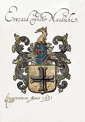 KNG001000001_034, 22-02-2008, 09:55, 8C, 8000x10660 (0+0), 100%, LEI_REP_6602, 1/80 s, R41.7, G16.8, B22.3